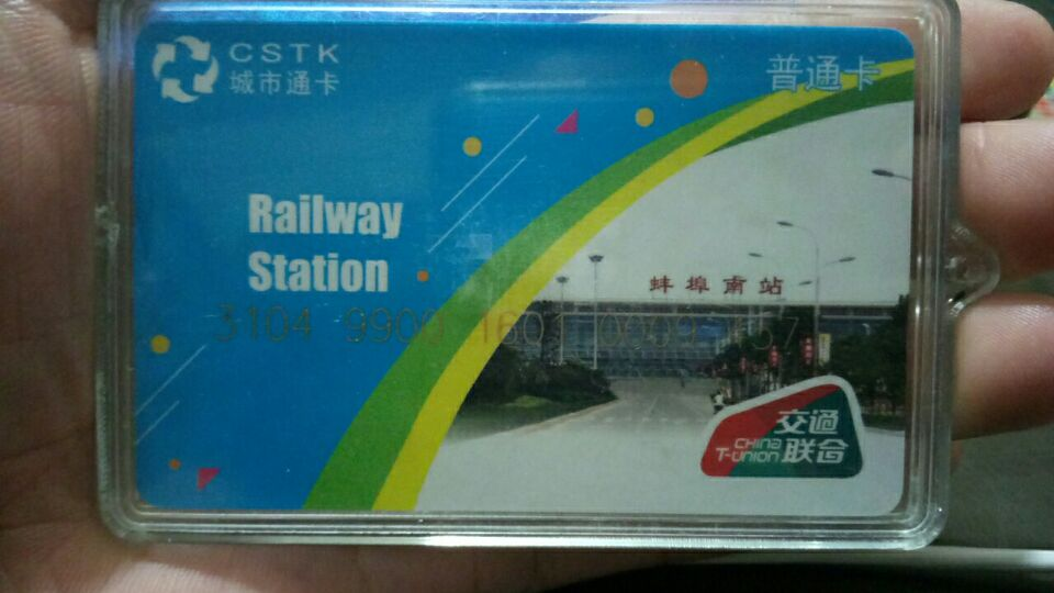 Bengbu Bus Ticket